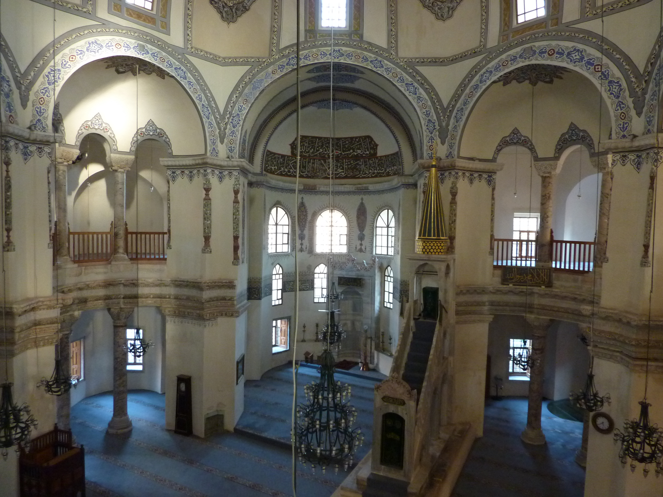 Interior, Church of Saints Sergius and Bacchus, Constantinople, built AD 527 by the Emperor Justinian. Currently in use as the Little Hagia Sophia Mosque, Istanbul.